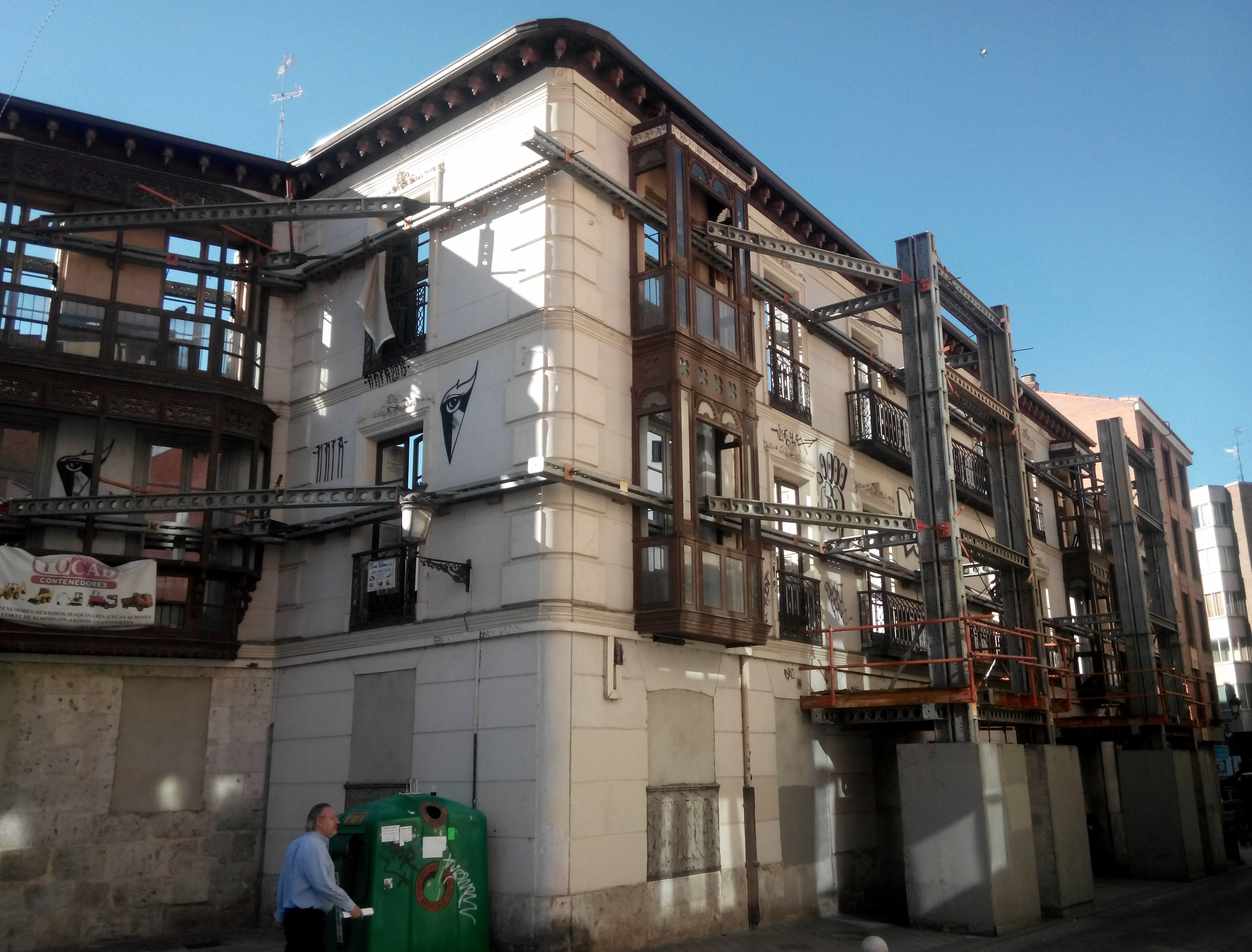 Protected façade in San Martín street of Valladolid, Spain.